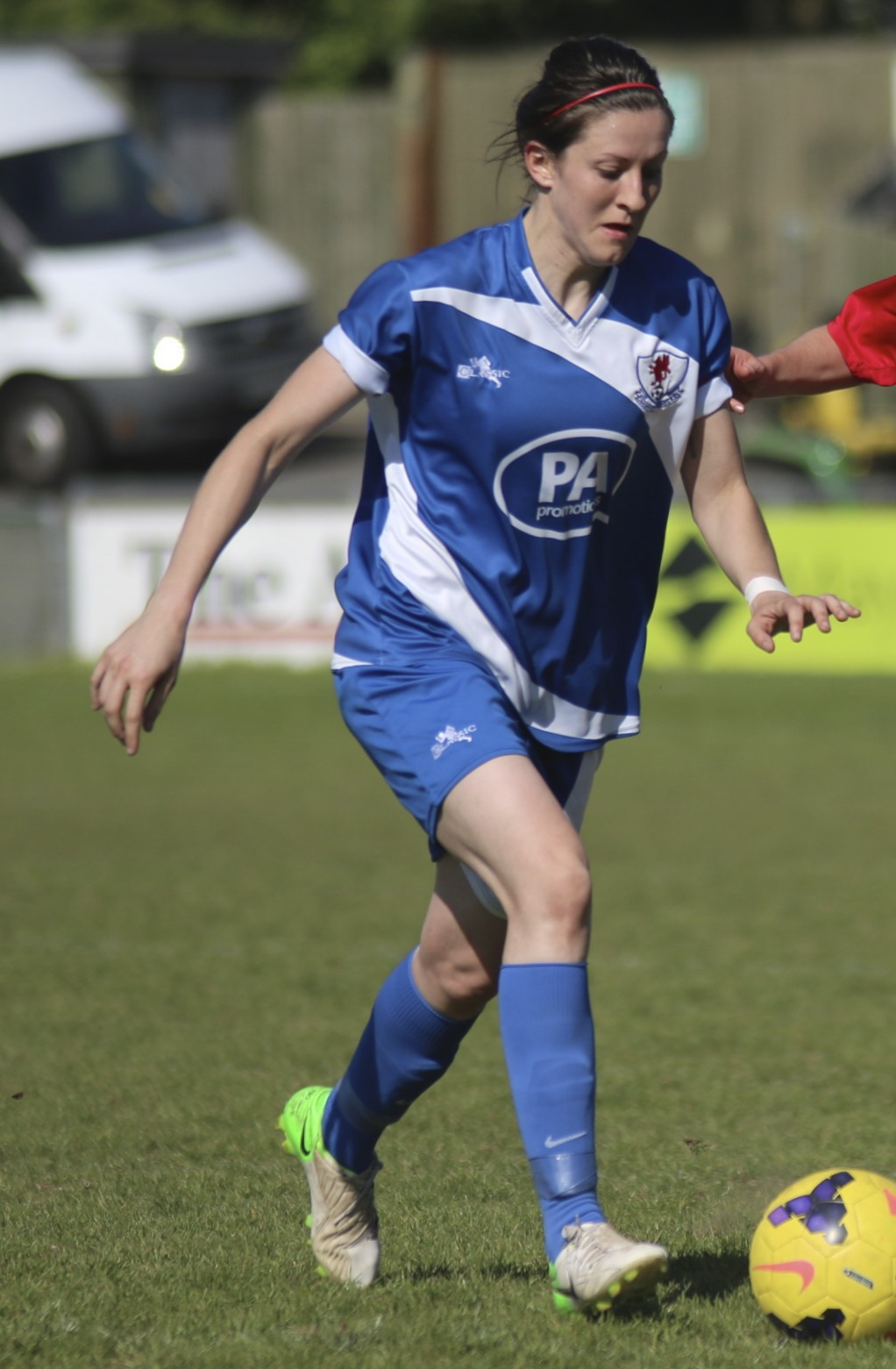 Cardiff's Nicola Cousins (left)